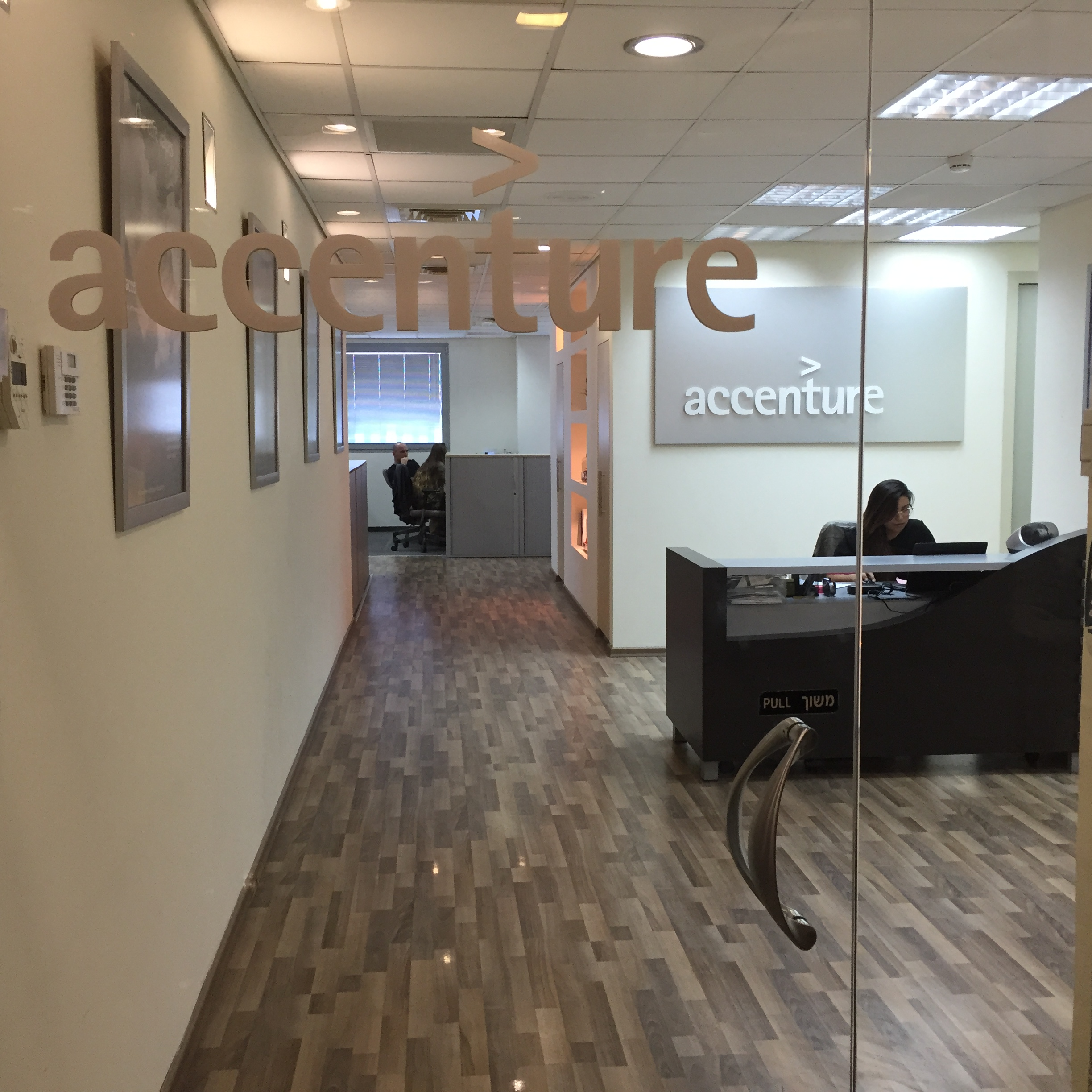 Accenture Offices in Israel